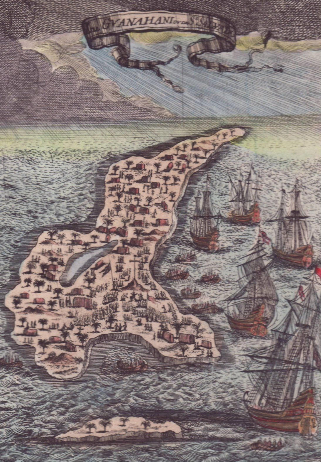 Scanned in from Mallet's five-volume world atlas. This page shows the islet of Guanahani, which is part of San Salvador, the first landfall island of Columbus in 1492.